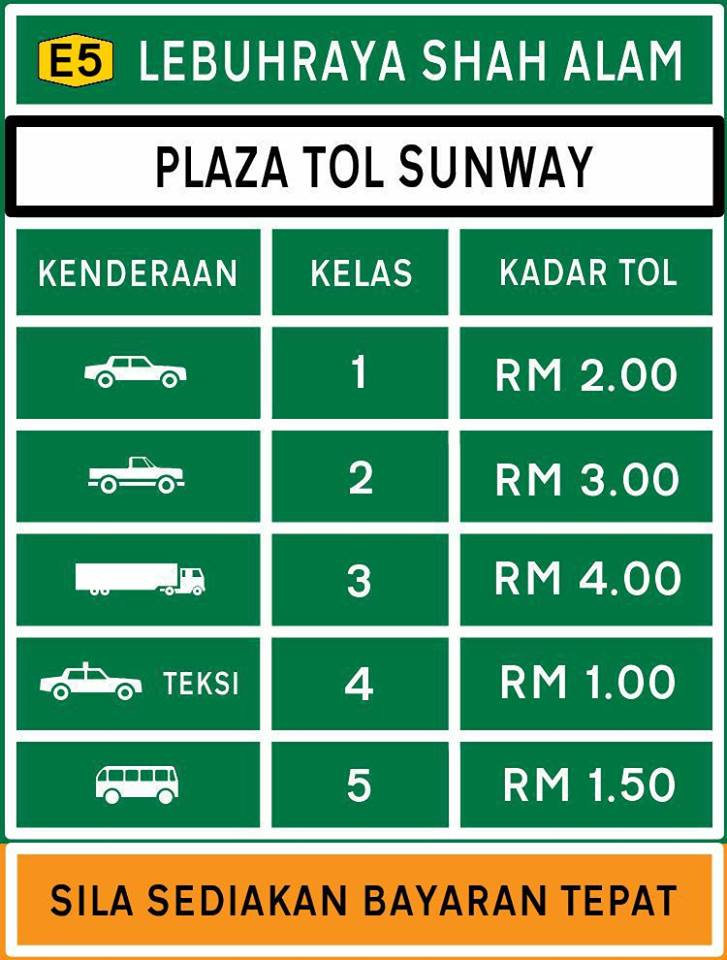 Toll rate table of a typical expressway in Malaysia